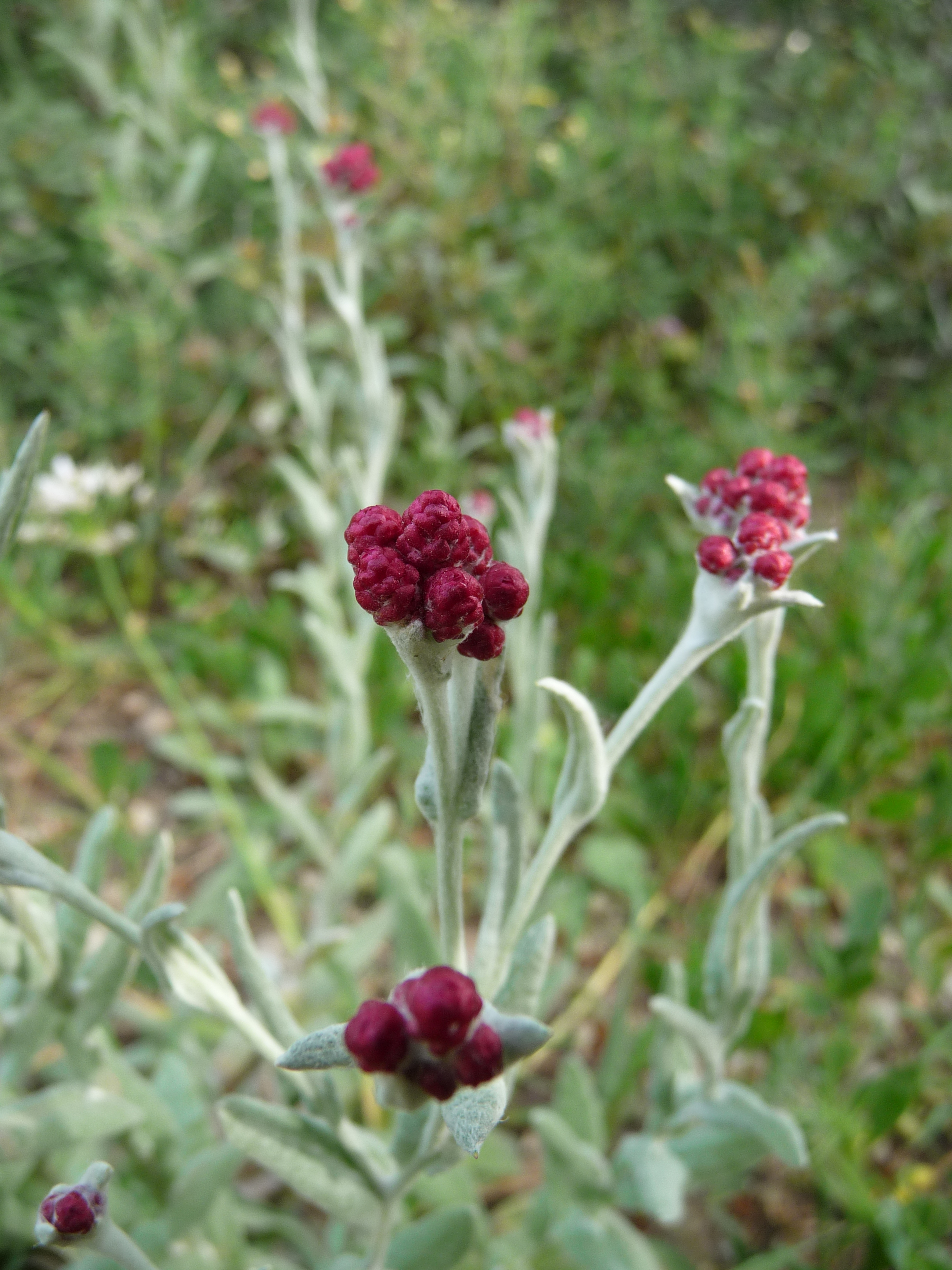 Carmel Park